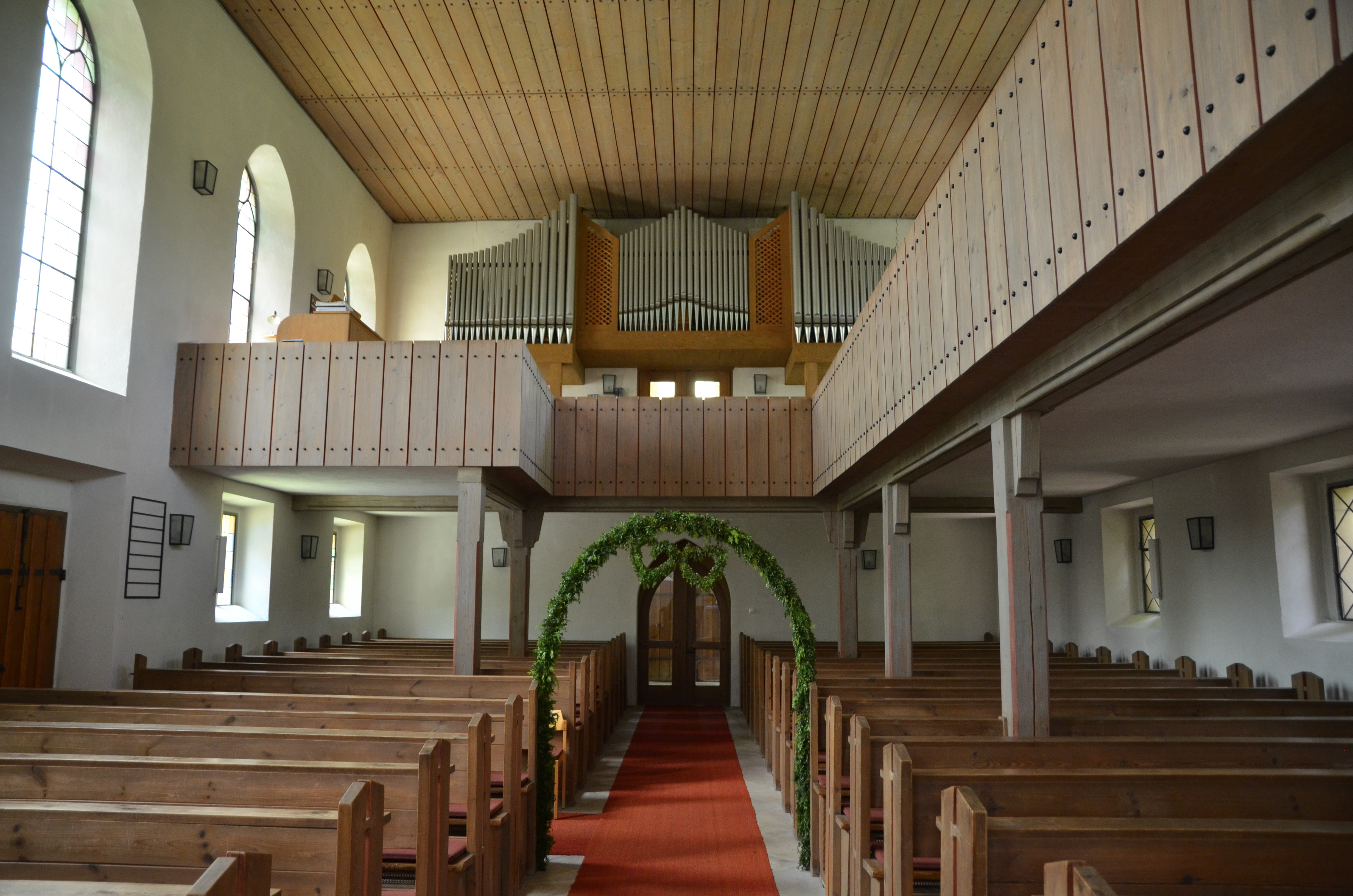 evang.-luth. Kirche St. Ursula in Colmberg